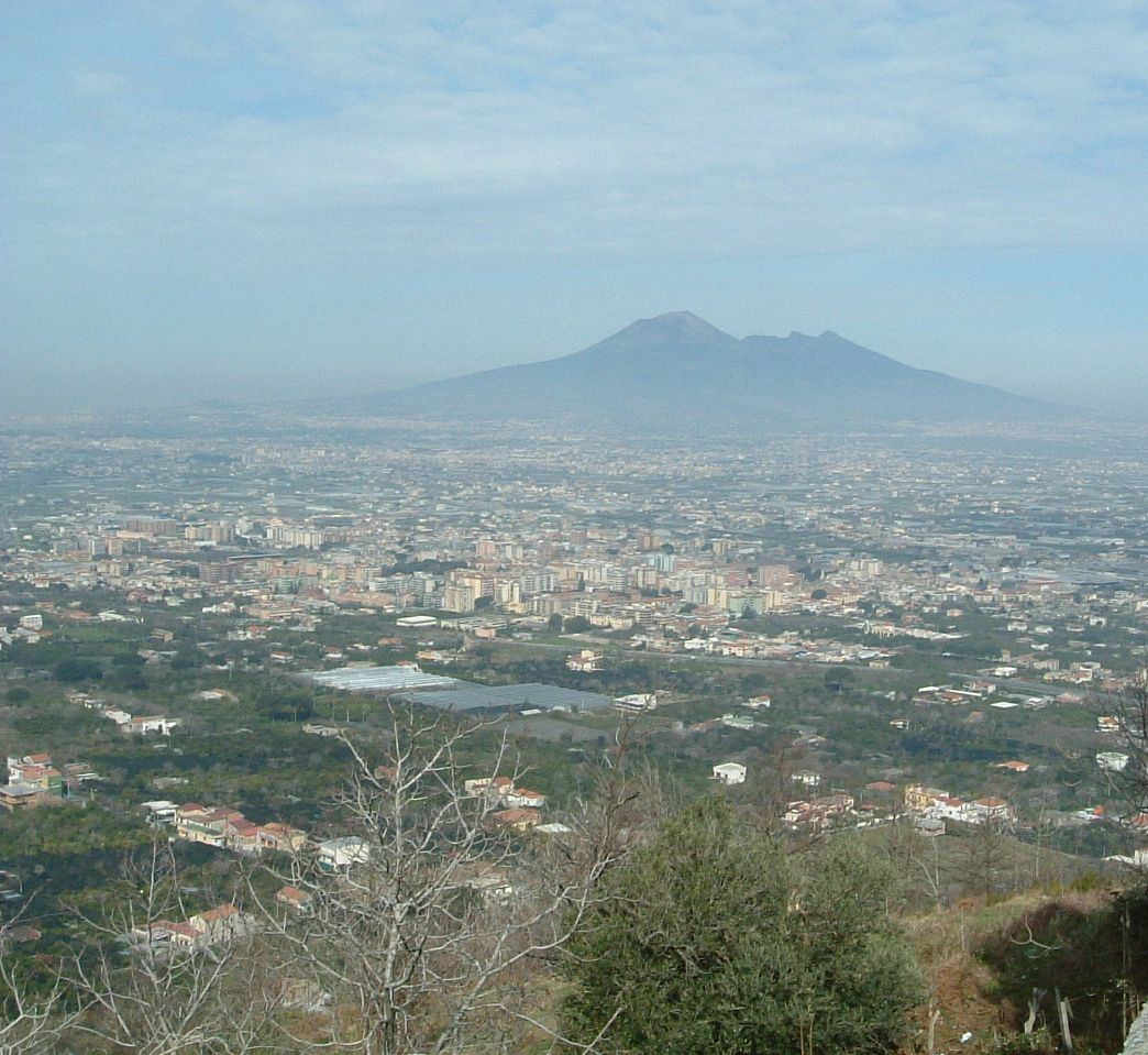 view of a part of Angri from the Lattari Mountains